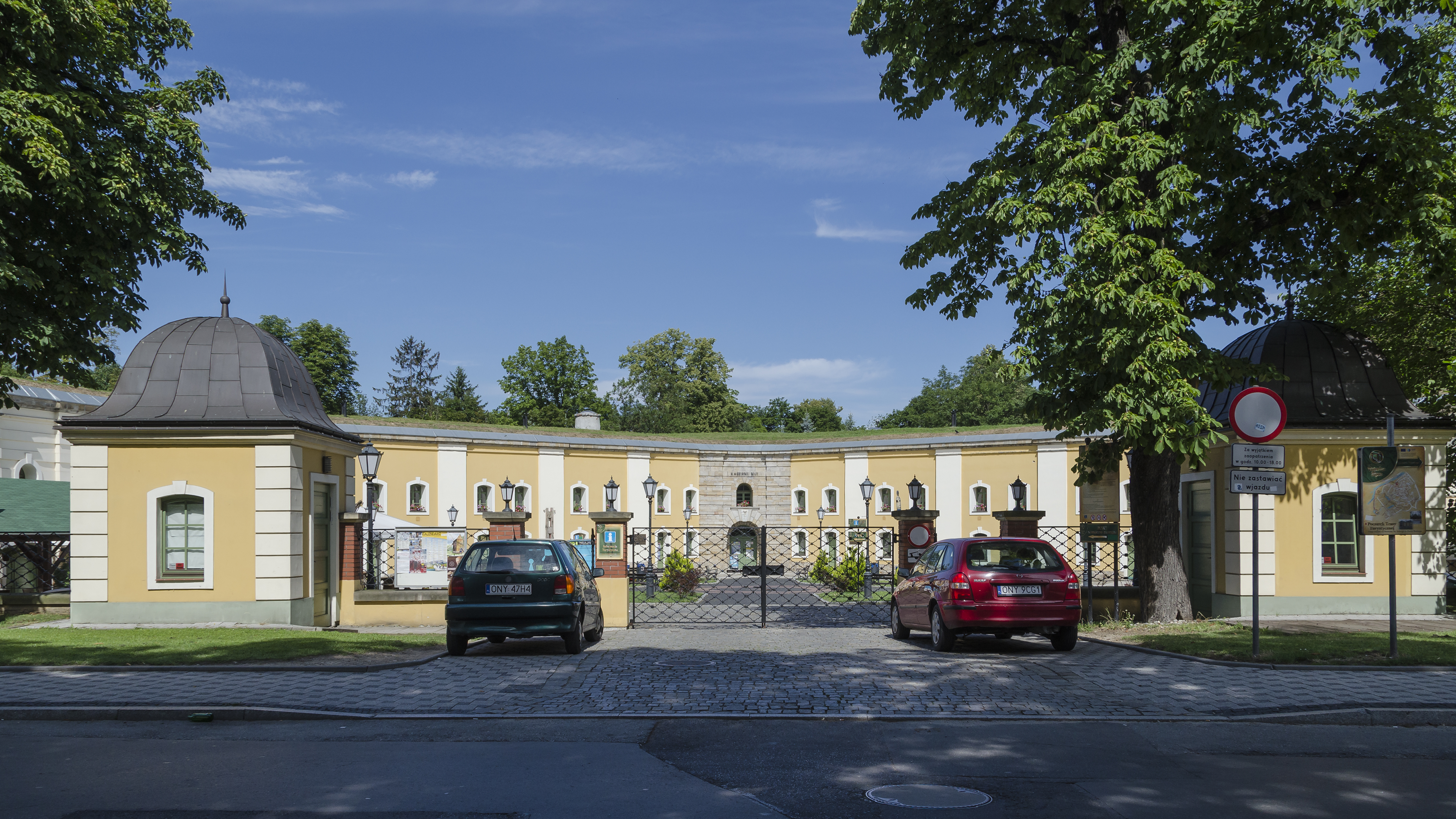 St. Jadwiga Bastion in Nysa